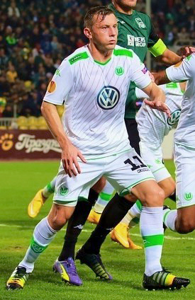 Ivica Olić